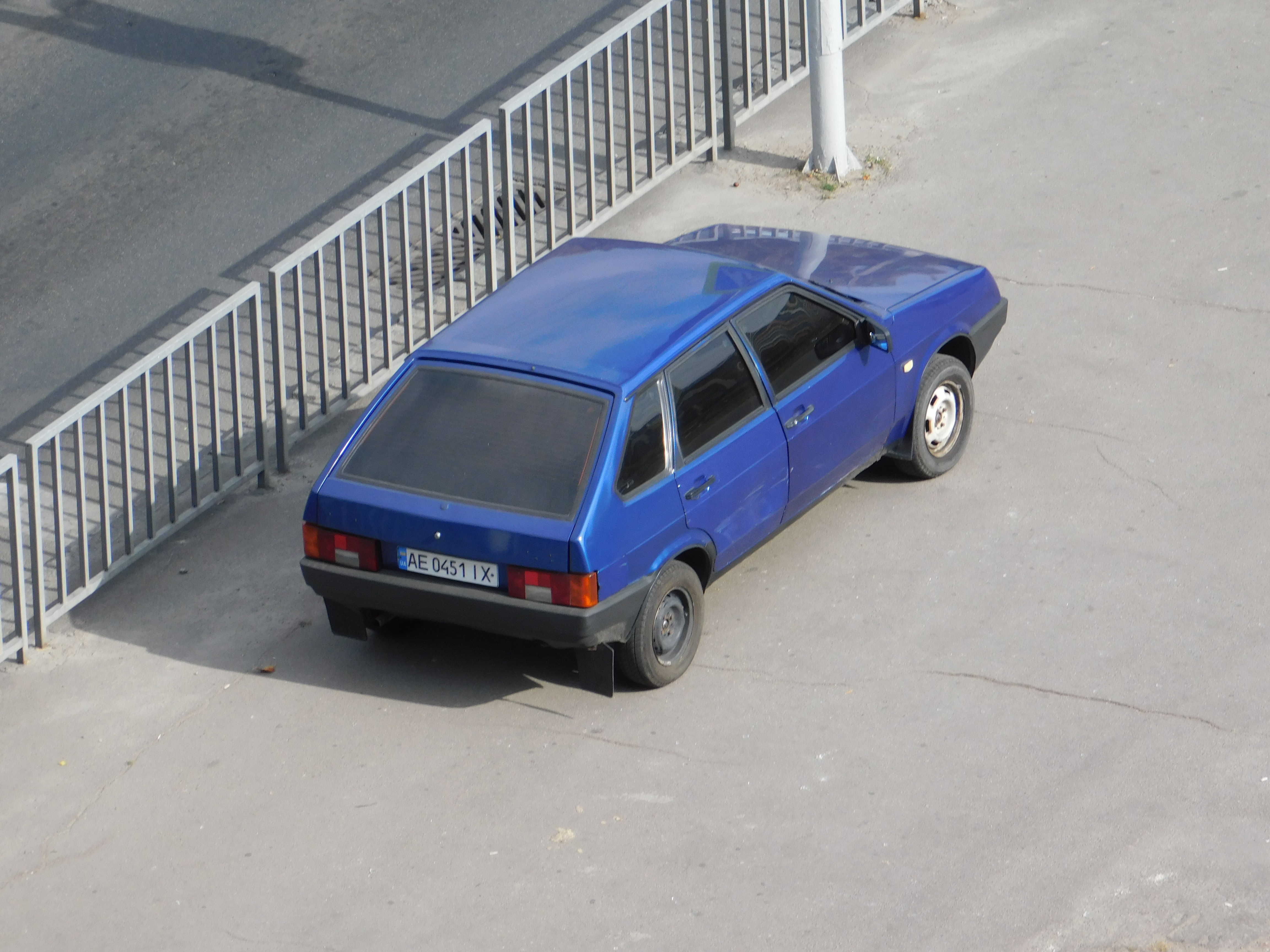 Lada Samara; Dnipro, Ukraine; 29.09.19